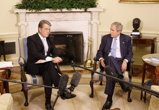 Presidents of USA and Ukraine: George W. Bush and Viktor Yuschenko